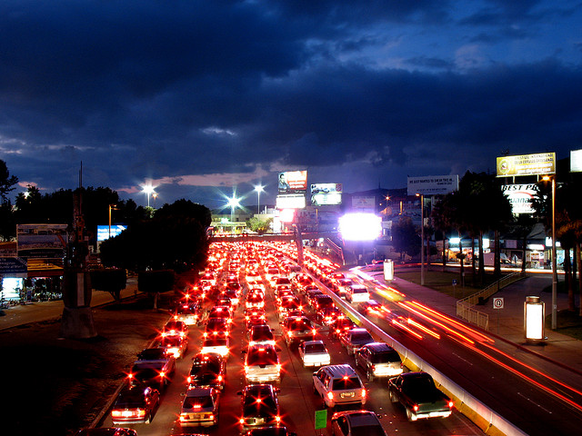 Traffic at the San Ysidro Port of Entry — in San Diego-Tijuana border area.